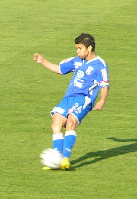 Eduardo da Silva taking a free kick for Dinamo against Osijek.